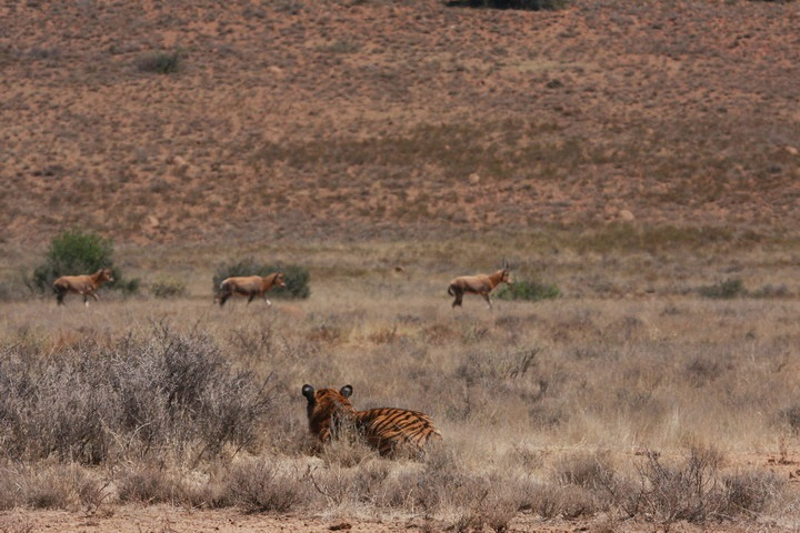 A South China Tiger stalking its prey